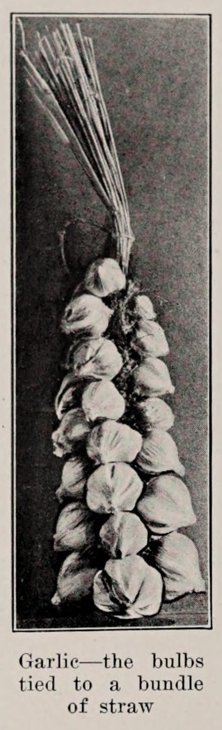 Garlic, photo from The Encyclopedia of Food by Artemas Ward; the bulbs tied to a bundle of straw